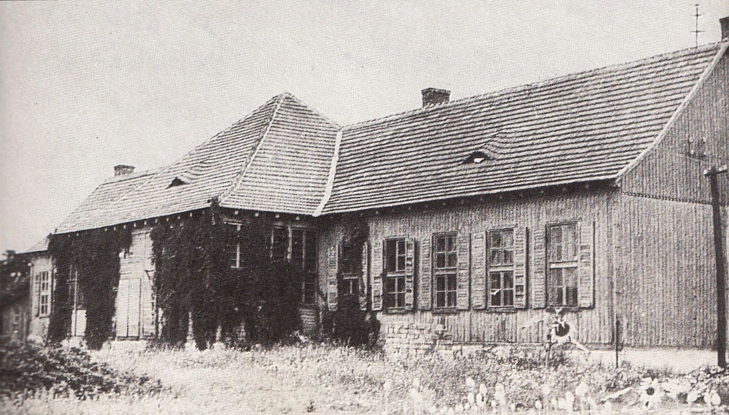 One of the buildings of the "Różyczka" complex in Wawer district in Warsaw